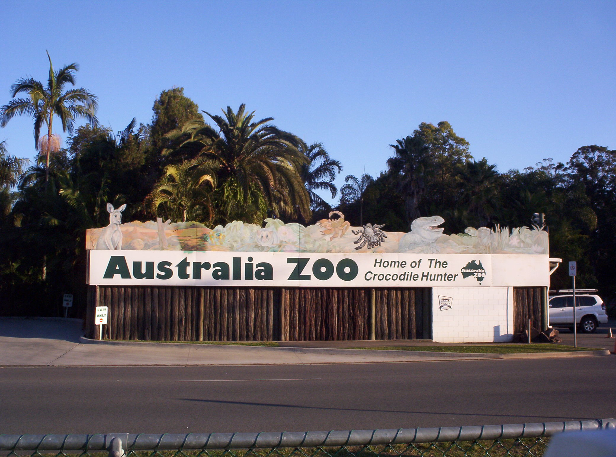 picture of sign near entrance of australia zoo.